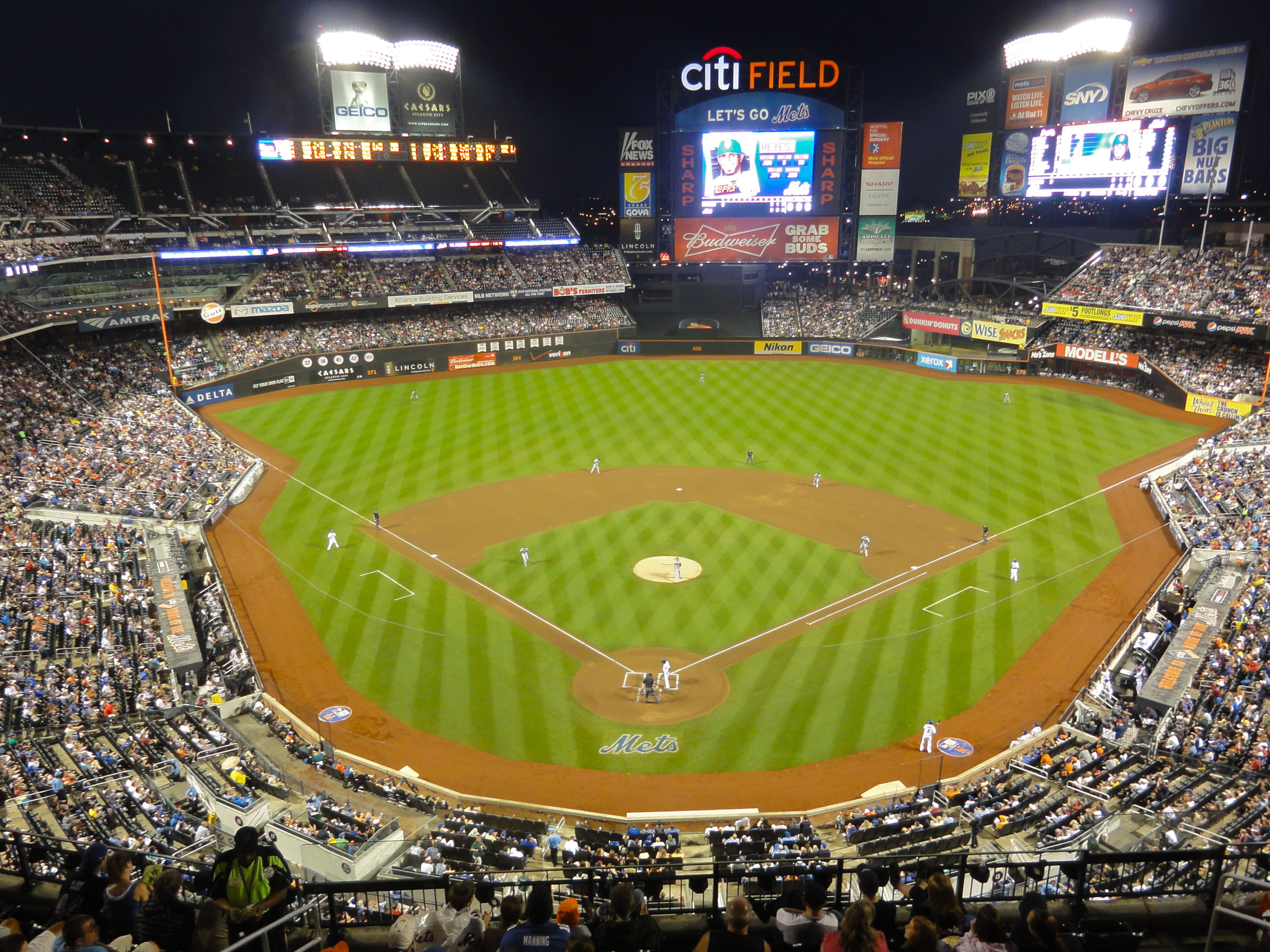 Citi Field during a Braves-Mets game, August 2011.